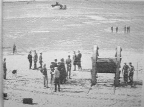 Panjandrum, a World War II-era experimental British weapon. Taken before trials began at Westward Ho!, Devon.